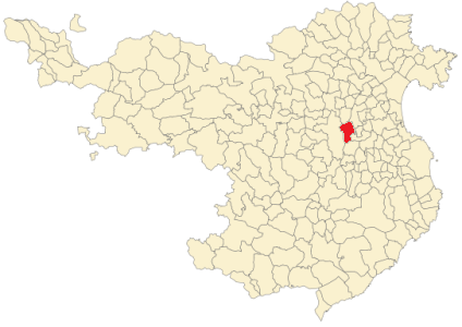 Bàscara